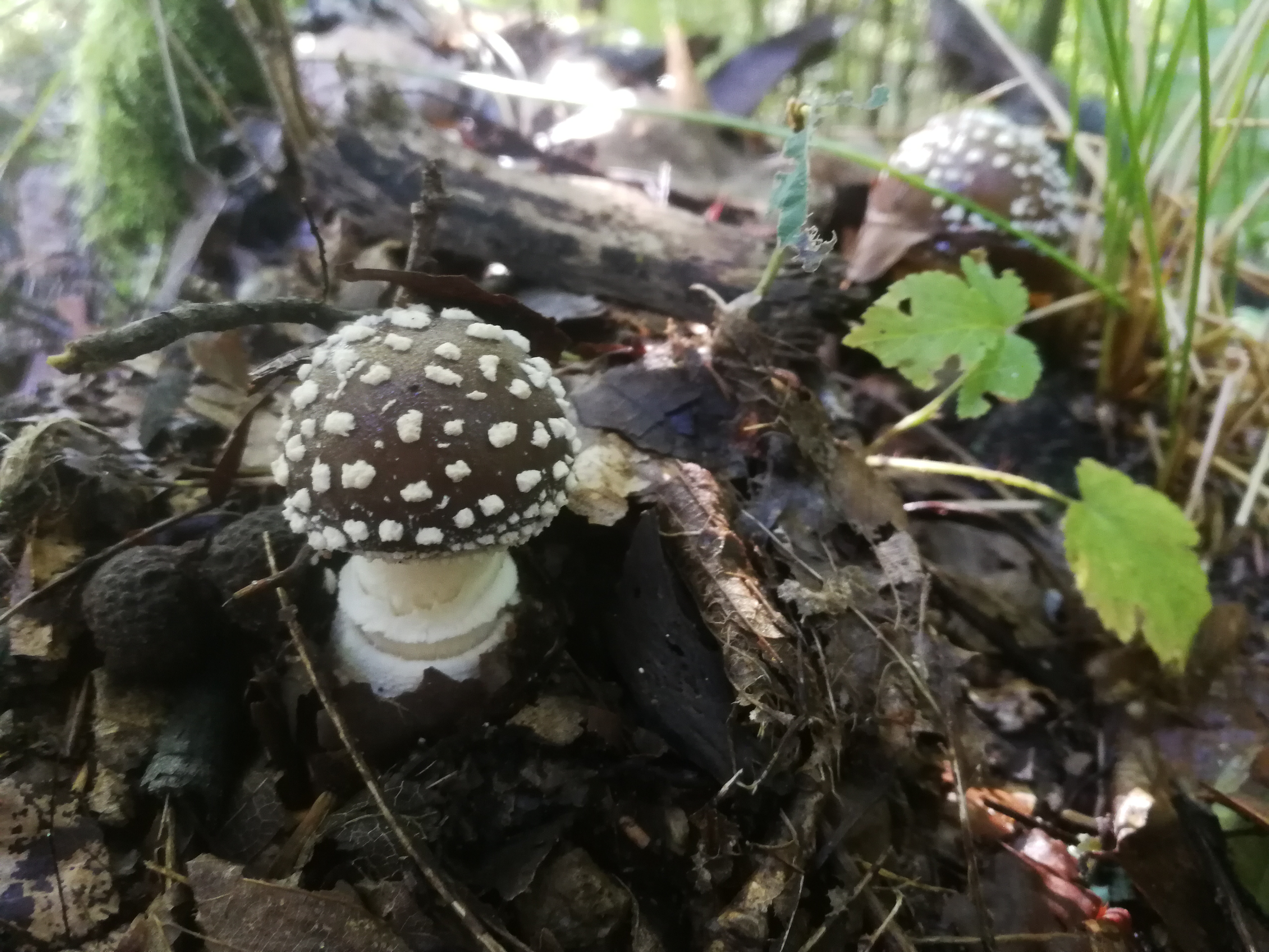 Amanita pantherina